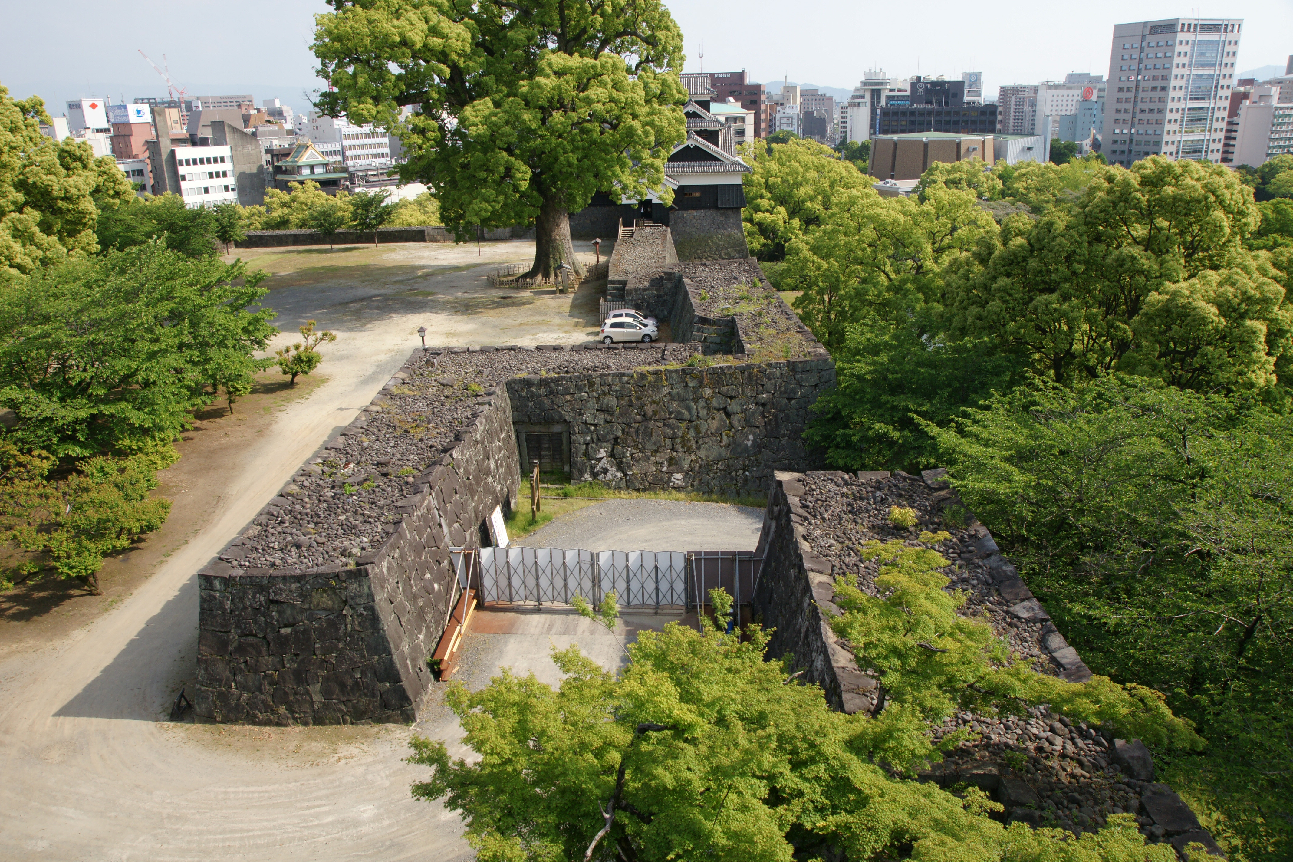 Kumamoto Castle, Kumamoto, Kumamoto prefecture, Japan